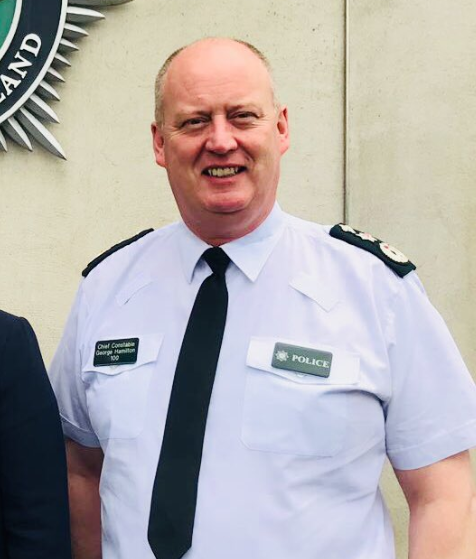 Secretary of State Karen Bradley MP meets with the Chief Constable of the Police Service of Northern Ireland